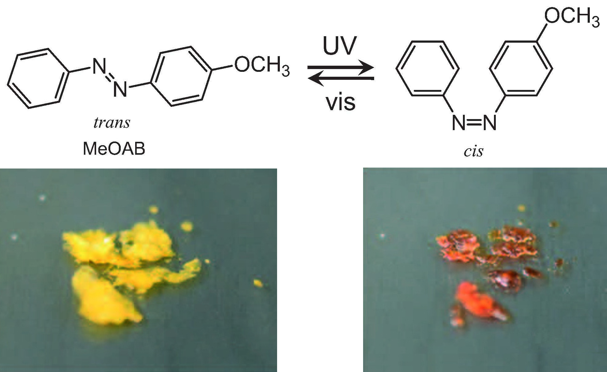 Photographs of the crystalline powders of 4-methoxyazobenzene on a slide glass (a) before and (b) after UV light irradiation (365 nm, 100 mW cm−2, 5 min).